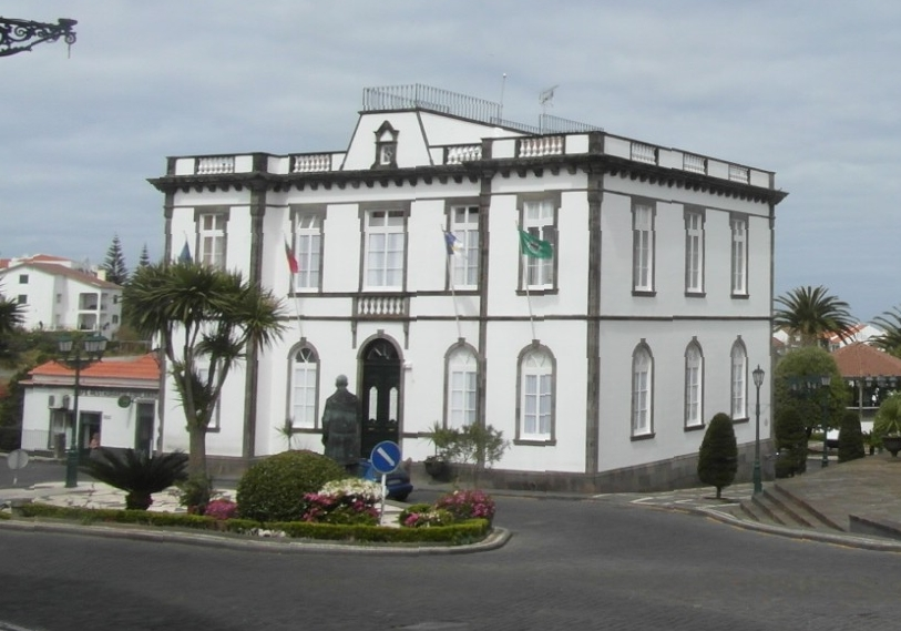 Paços do Concelho (Town Hall)